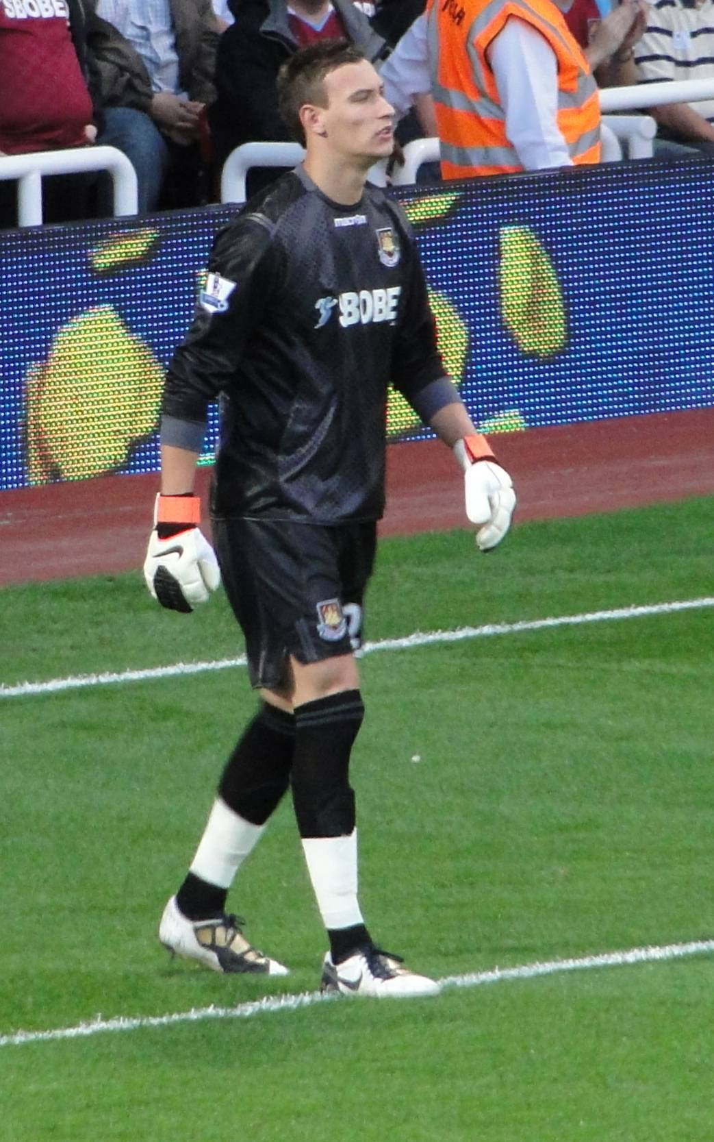 West Ham goalkeeper, Marek Štěch, on his West Ham debut, 24/08/2010, in the League Cup against Oxford United